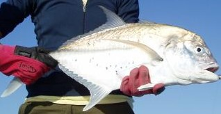 Caranx bucculentus taken off Port Moresby, QLD